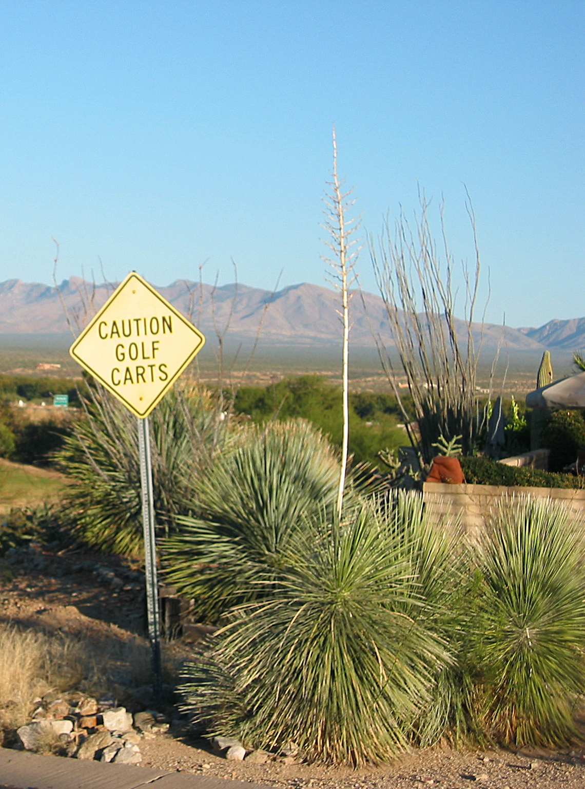 Green Valley, AZ is a retirement town. A lot of people drive around in golf carts.